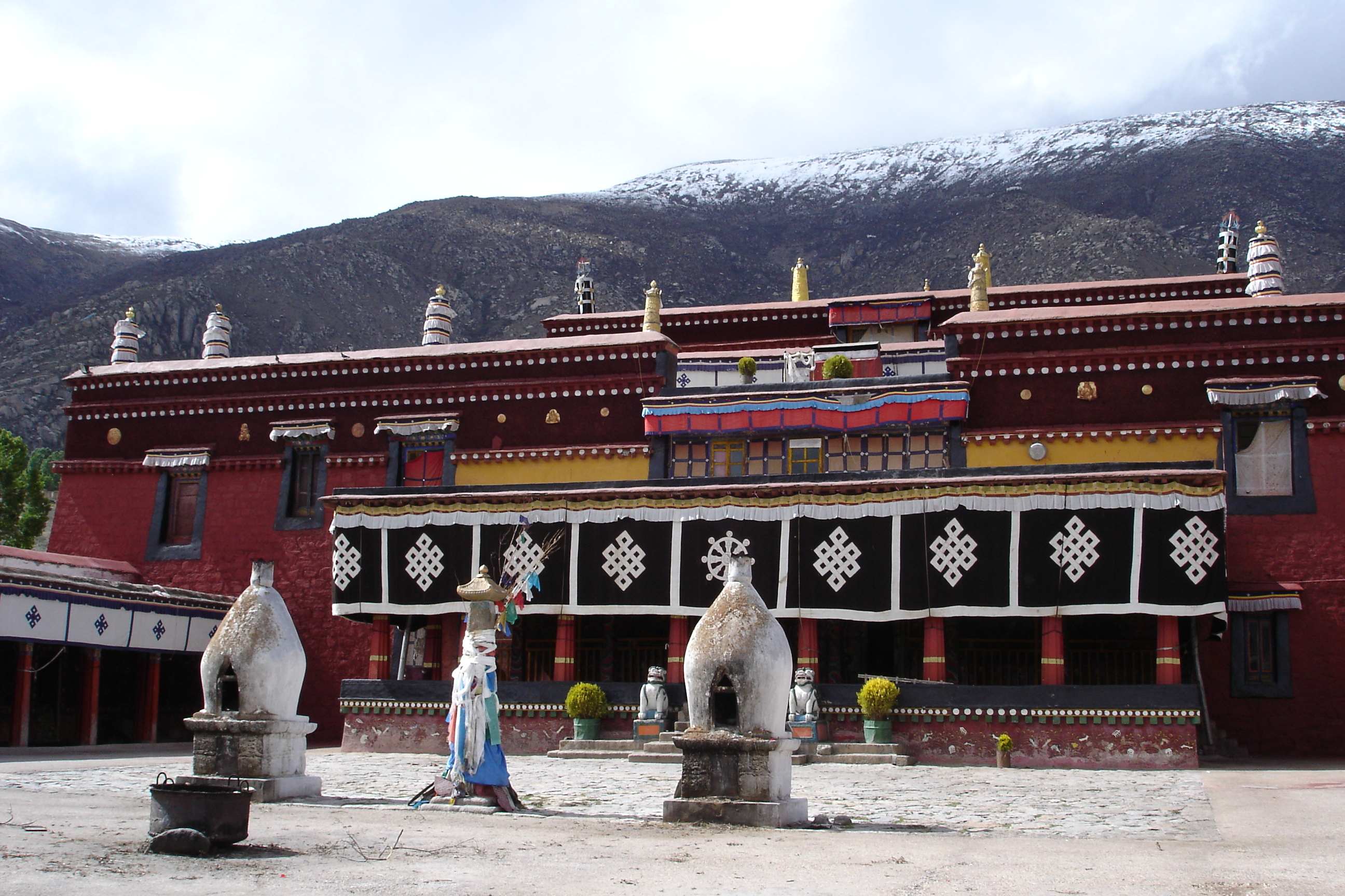 Nechung monastery (Tibet Autonomous Region, People's Republic of China).